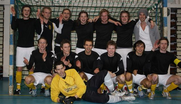 Picture of Lillehammer Futsal team